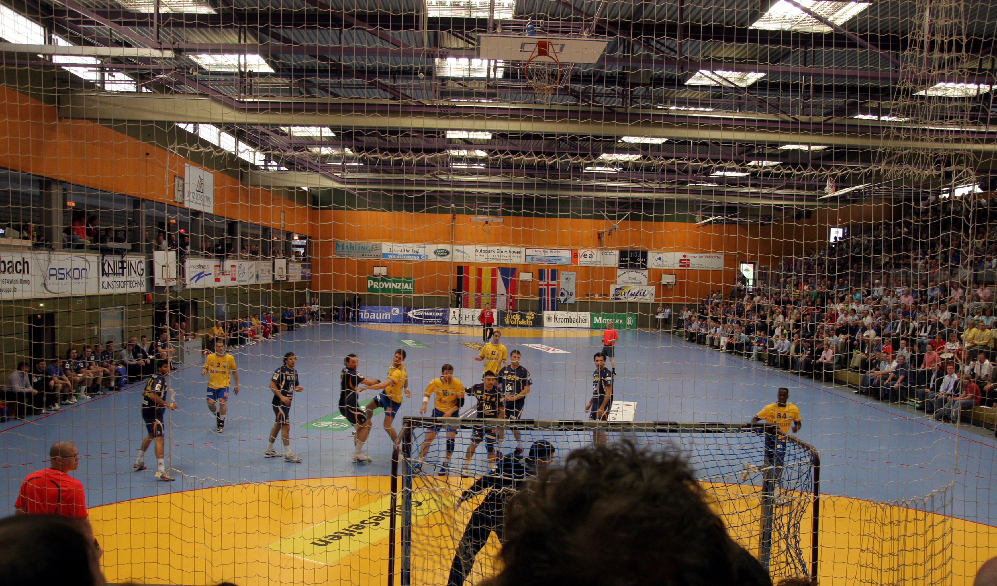 The Eugen-Haas-Halle in Gummersbach (Germany), on April 26th, 2009 in During the IHF Cup game between VfL Gummersbach and BM Aragón.